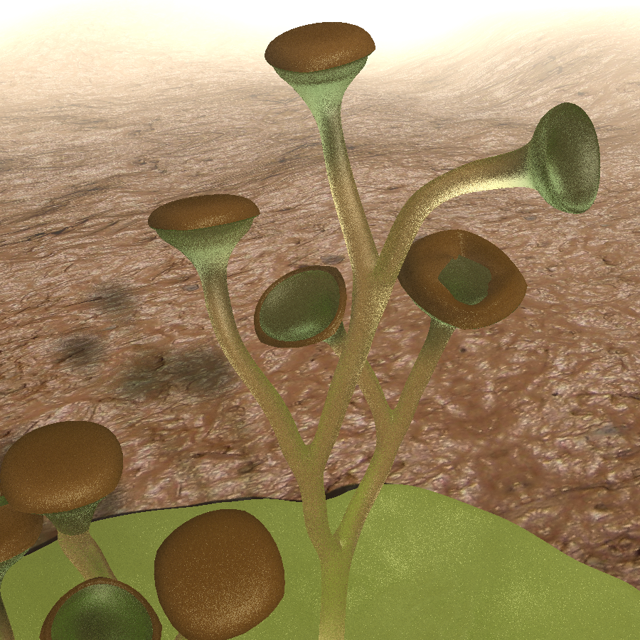 Animated reconstruction of Cooksonia pertoni. The stems have been reconstructed as non-photosynthetic, according to Boyce (2008). The axes are imagined to be around 100μm in diameter. It is left to the viewer's imagination whether or not the thallus is associated with the Cooksonia axes! Sources: C. Kevin Boyce. "How green was Cooksonia? The importance of size in understanding the early evolution of physiology in the vascular plant lineage". Paleobiology, 34(2), 2008, pp. 179–194. 10.1666/0094-8373(2008)034[0179:HGWCTI]2.0.CO;2]. Habgood, K.S.; Edwards, D.; Axe, L. (2002). "New perspectives on Cooksonia from the Lower Devonian of the Welsh Borderland". Botanical Journal of the Linnean Society 139 (4): 339-359. D. Edwards (1980). "Records of Cooksonia-type sporangia from late Wenlock strata in Ireland". Nature 287: 41–42.